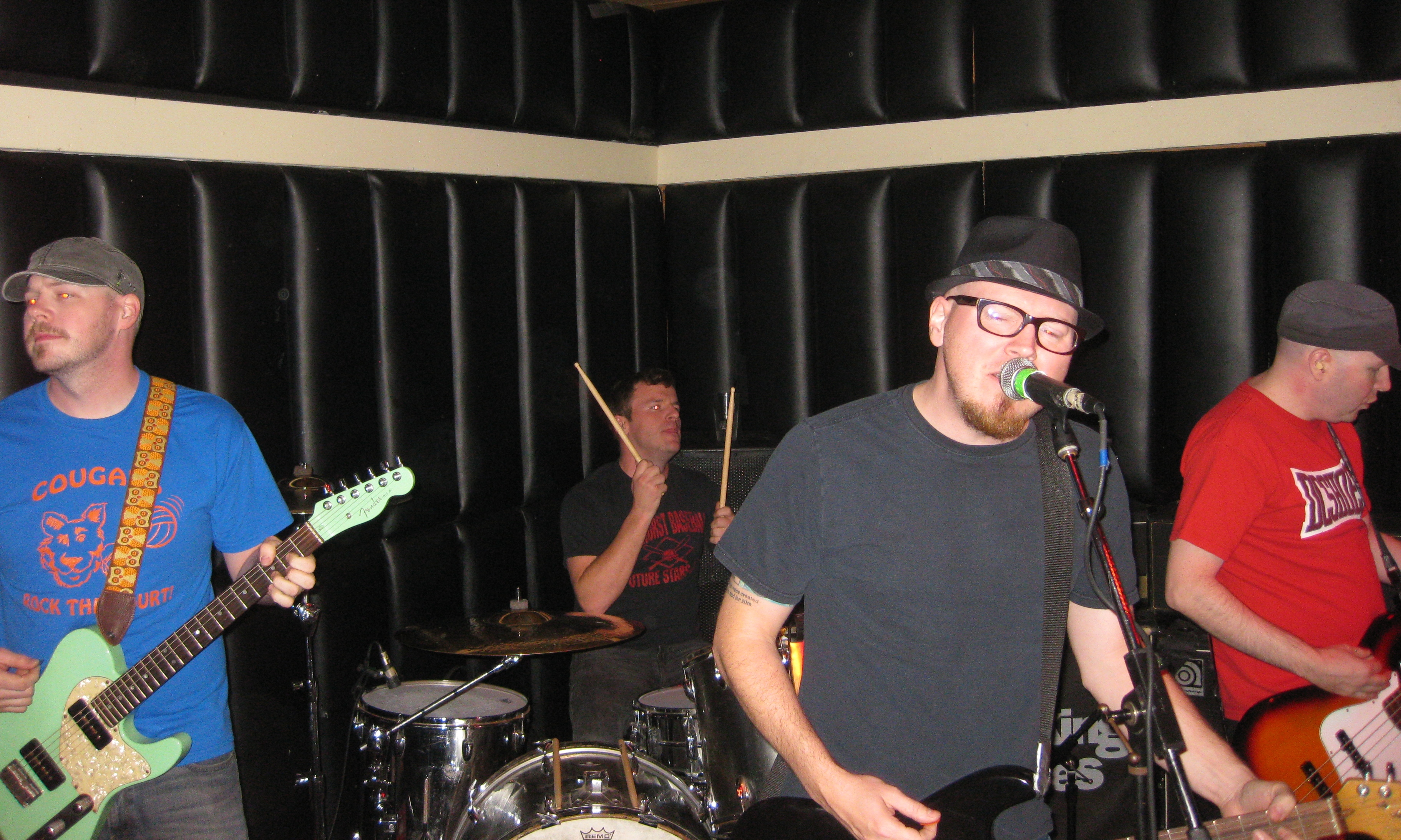 Smoking Popes performing November 9, 2012 at the Soda Bar in San Diego, California. Left to right: guitarist/backing singer Eli Caterer, drummer Neil Hennessy, guitarist/lead singer Josh Caterer, and bassist Matt Caterer.